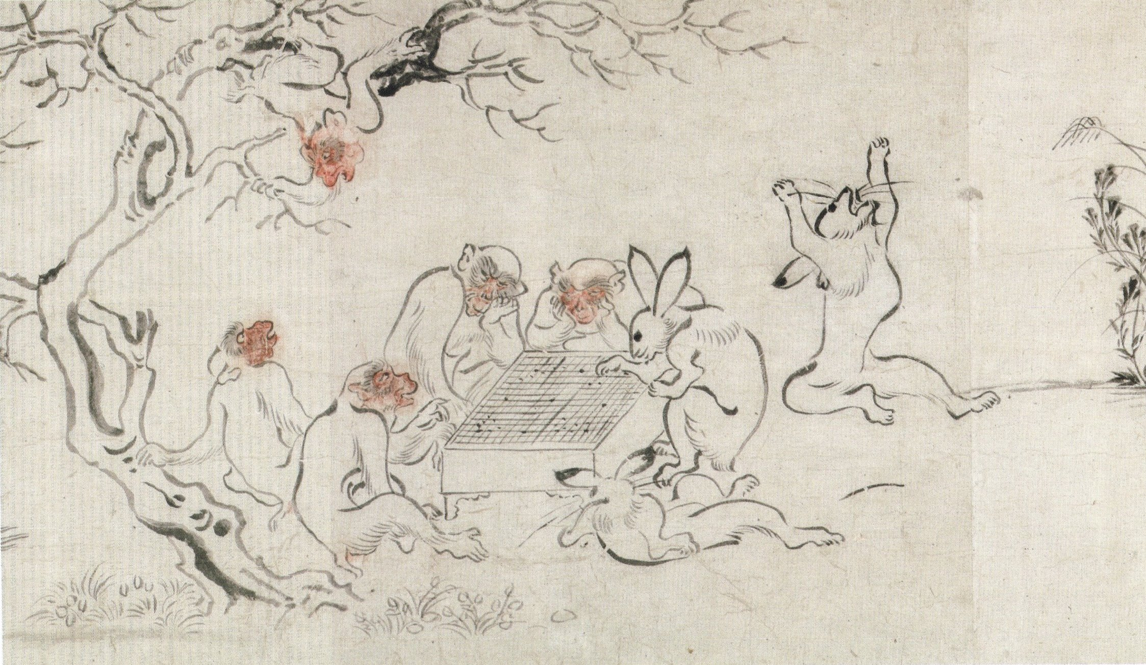 Frolicking Animals, attributed to Tosa Mitsunobu (copy of the Kōzanji Chōjū giga), 15th-early 16th century, Japanese handscroll, ink and color on paper, Honolulu Museum of Art, accession 1951.1, 2213.1